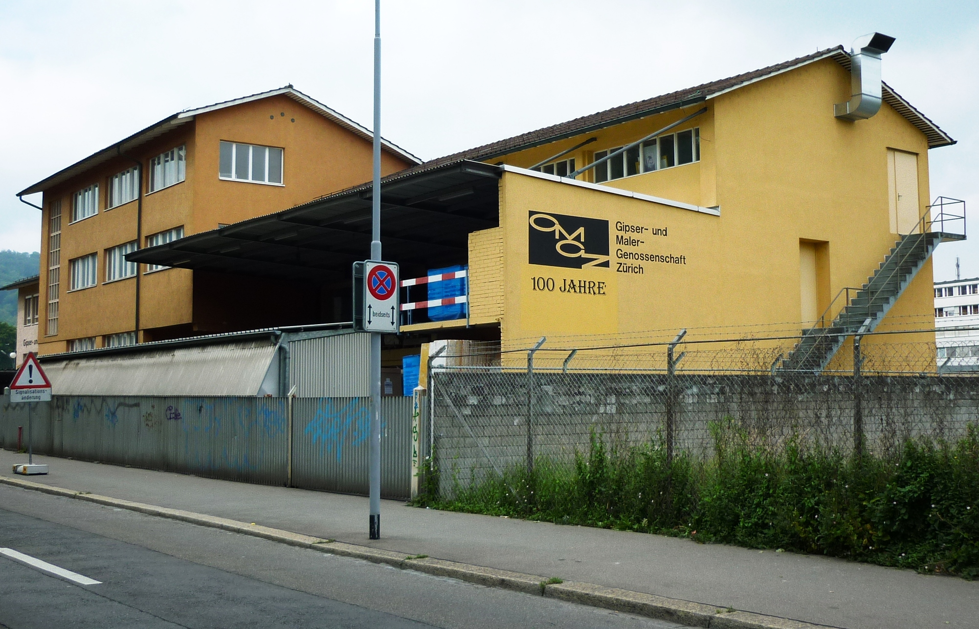 Plasterer and painter cooperative, Zurich, Switzerland